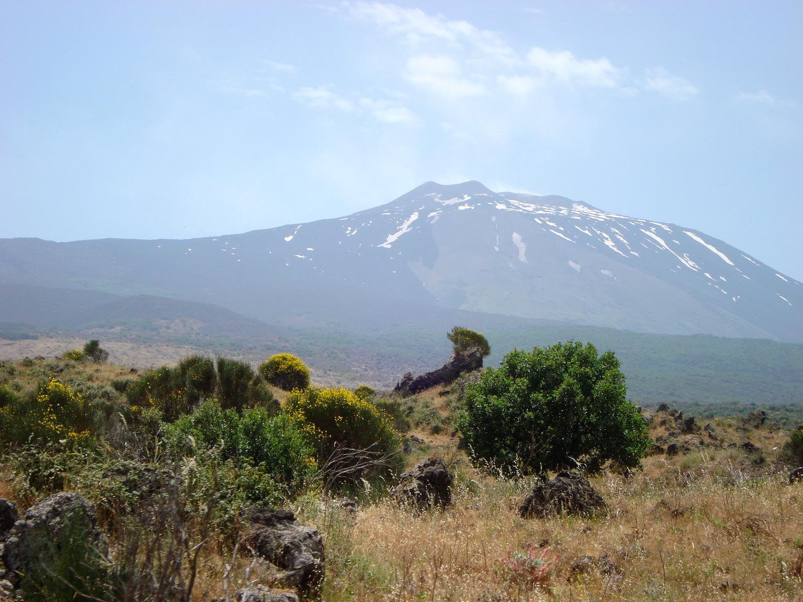 Sight of Etna from FCE train's window (between Randazzo and Maletta)